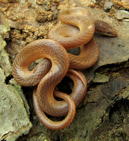 Pine Woods Snake, adult